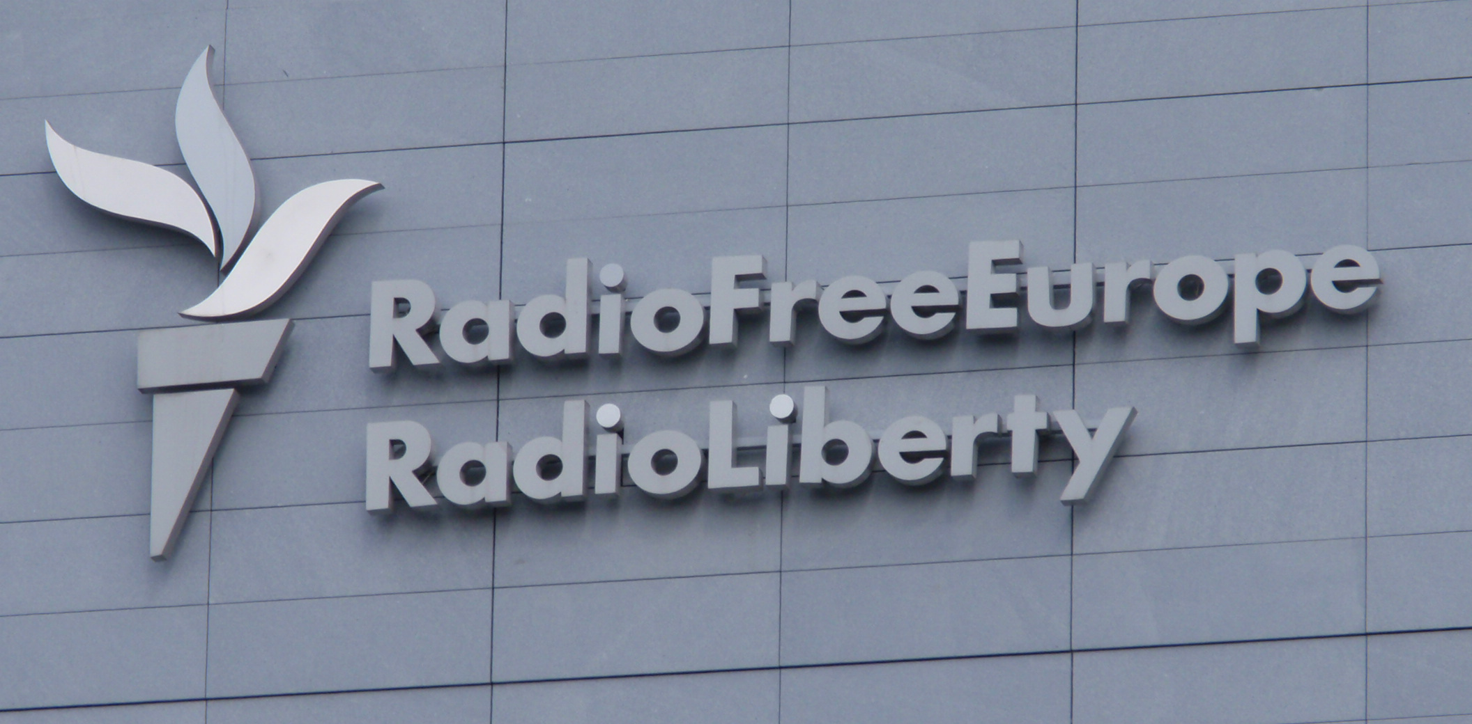 Logo of Radio Free Europe/Radio Liberty on its newly constructed building in Prague